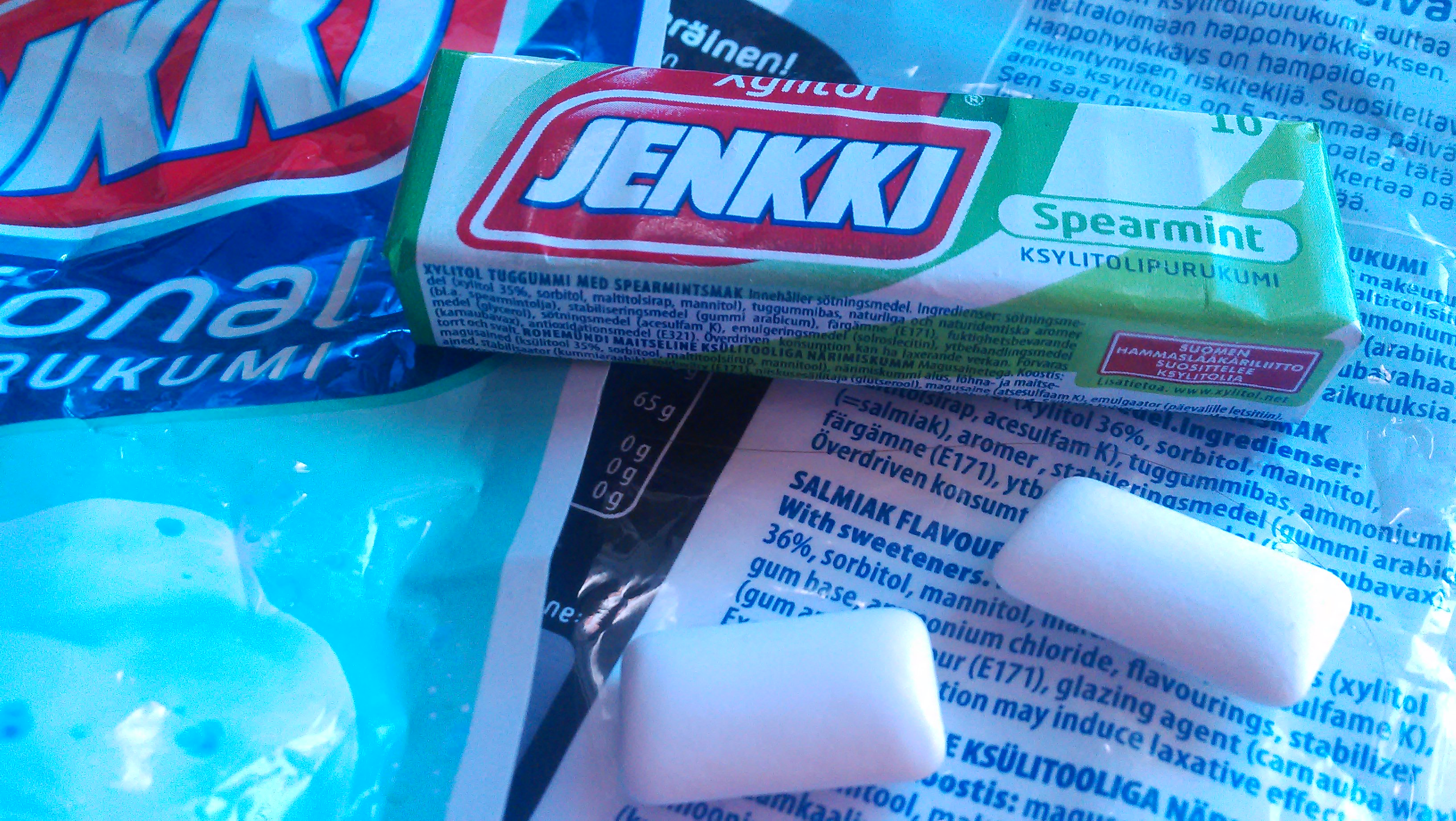 Xylitol Jenkki chewing gum packages in March 2015 in Finland